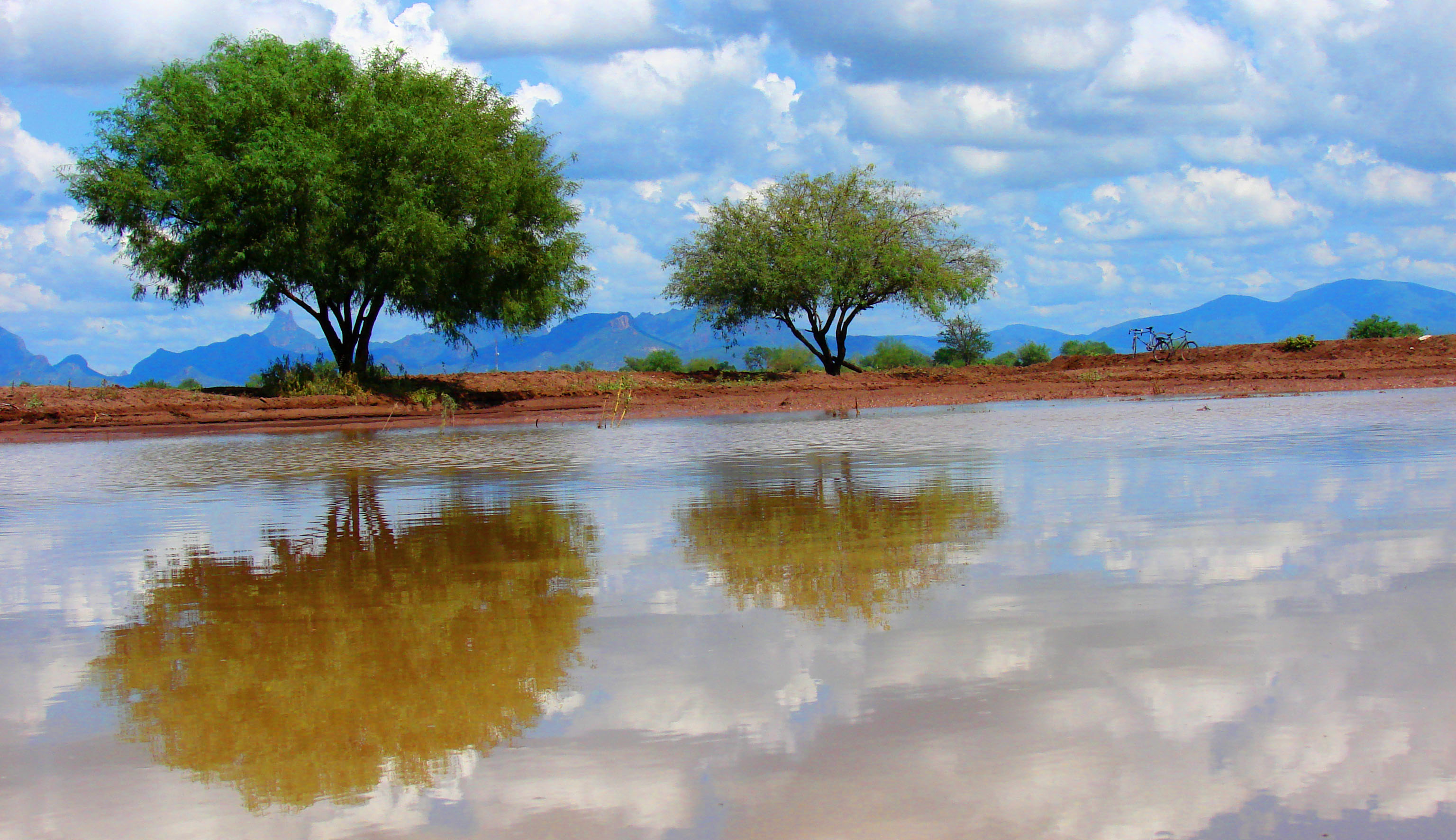 View On Black Etchohuaquila, Navojoa, Sonora.